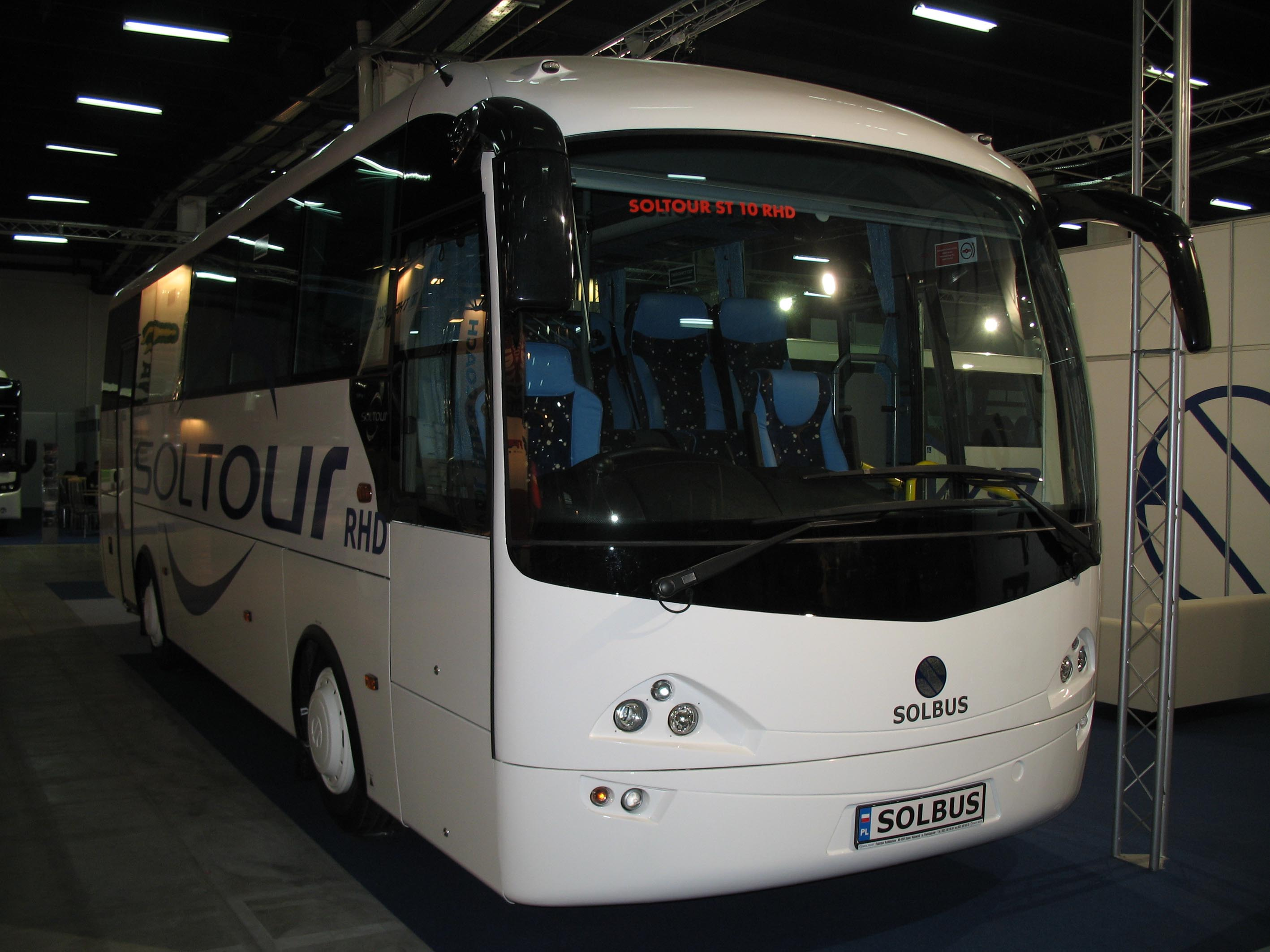 Solbus Soltour ST10 RHD coach in Kielce, Poland. Built 2008. Transexpo 2008.